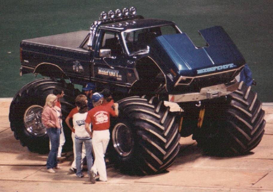 Bigfoot III in St. Louis. Date unknown.